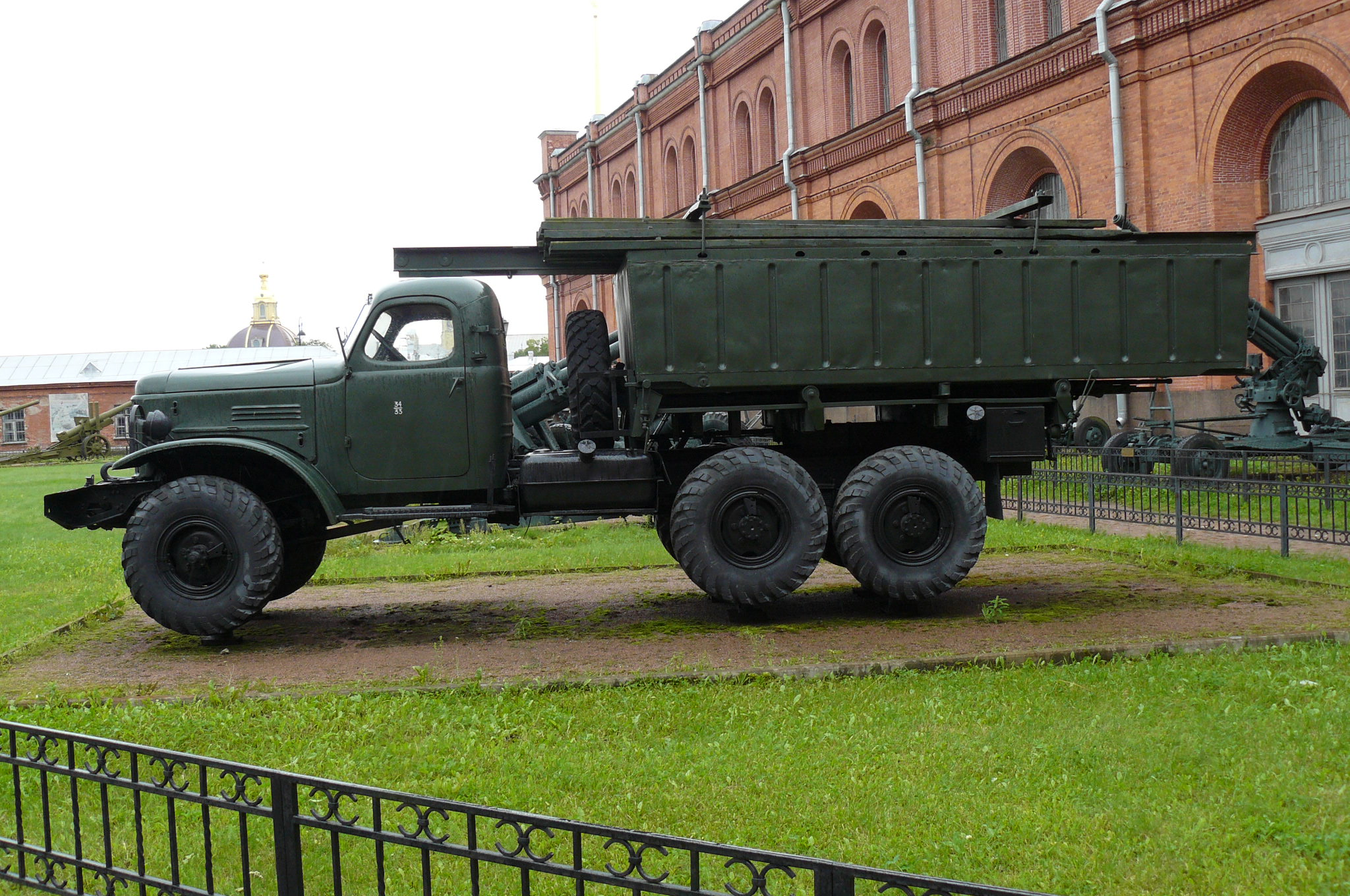 ZIL-157 with ponton seen at artillery museum St. Petersburg, September 2012